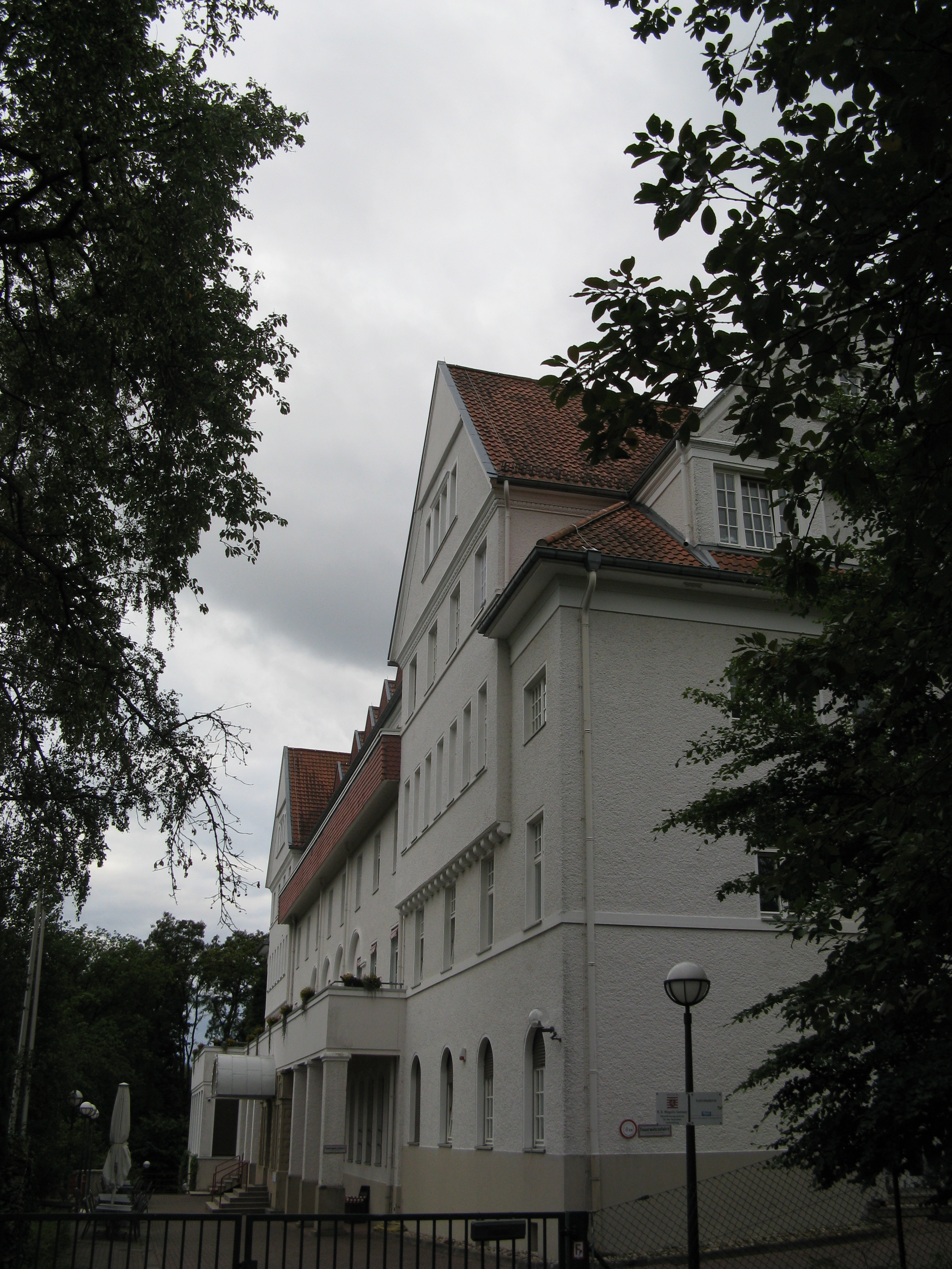 Joseph-Baum-Haus near Chausseehaus Wiesbaden